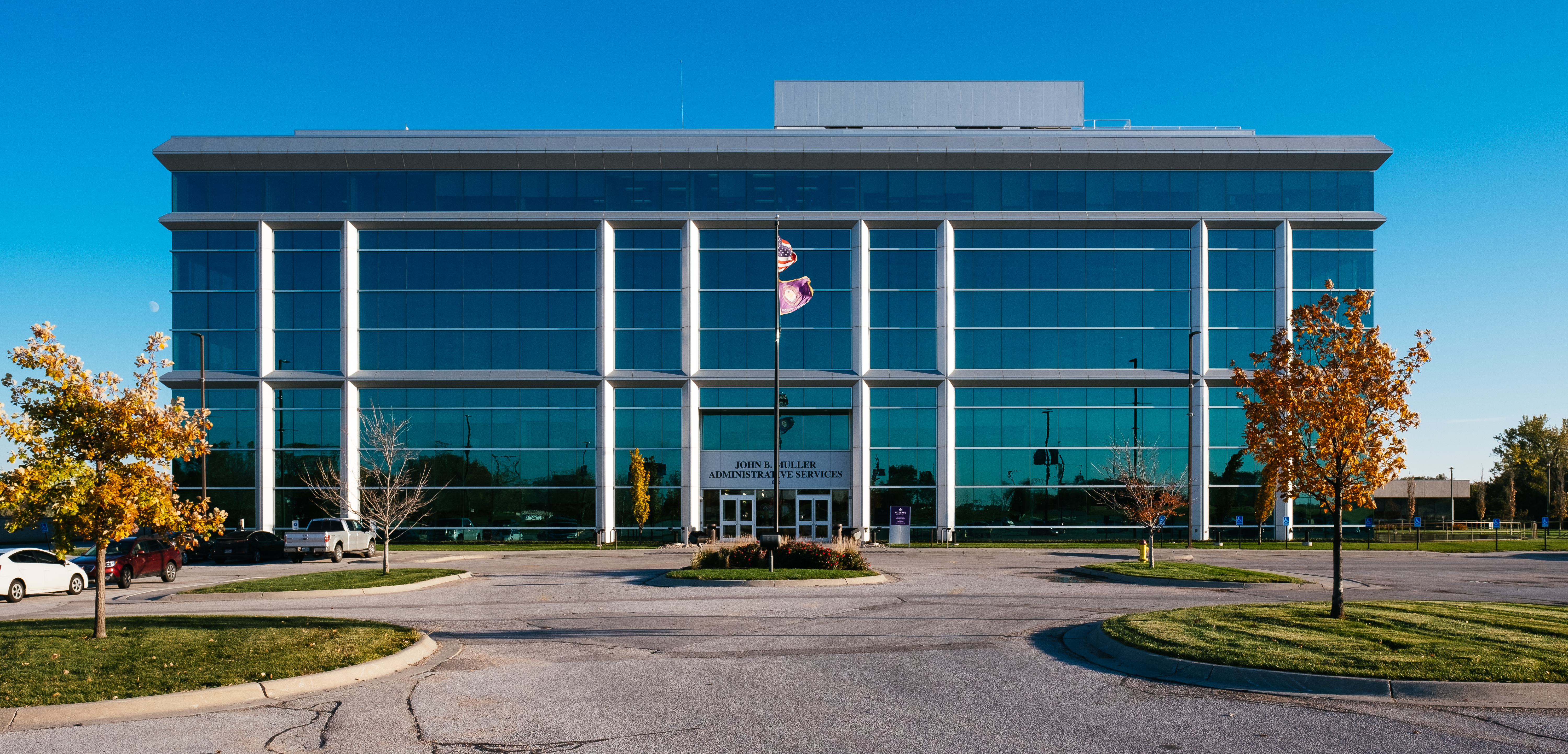 John B. Muller Administrative Services Building